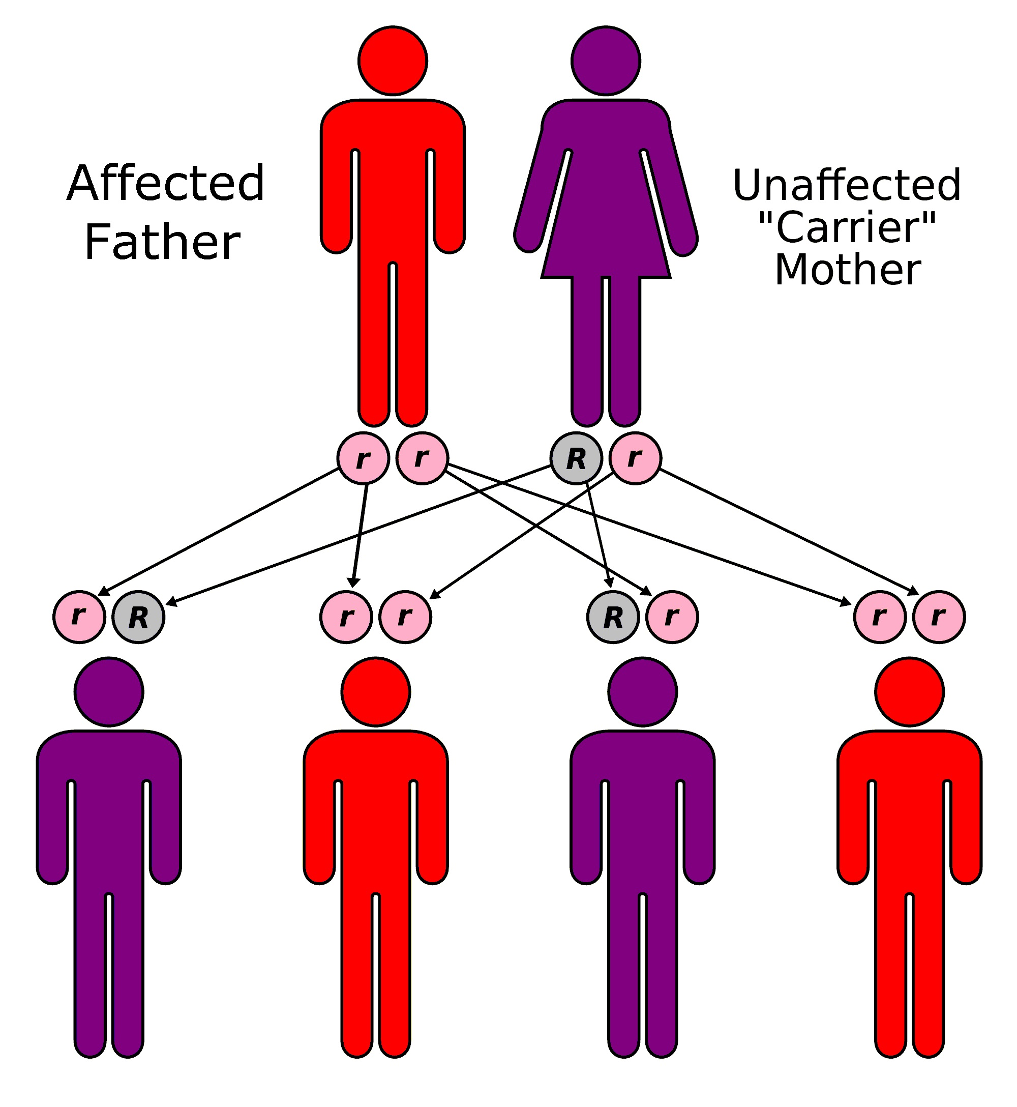 Chances of inheritance in the children. This is the color corrected version.